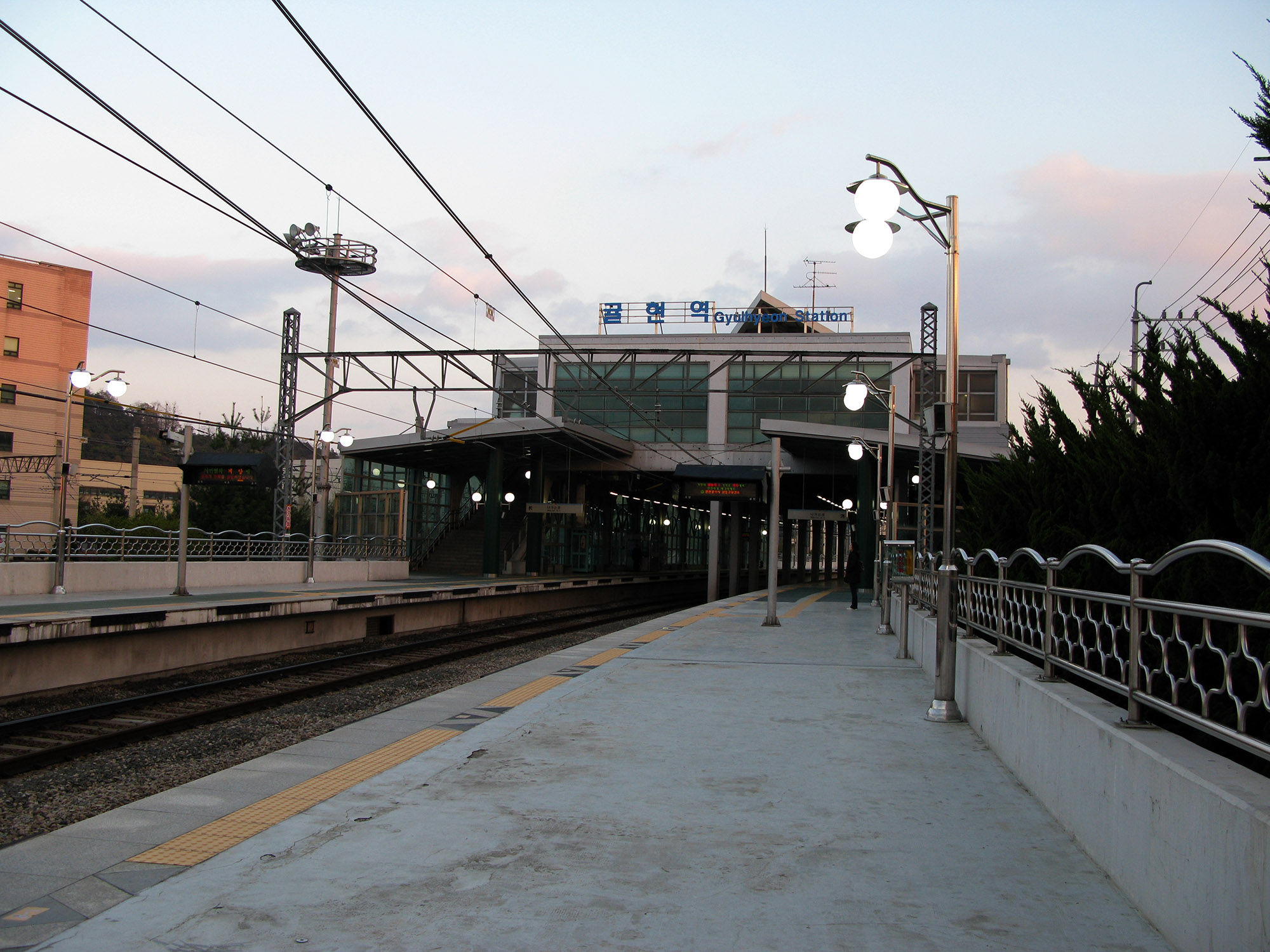 Incheon Subway Line 1 Gyulhyeon Station